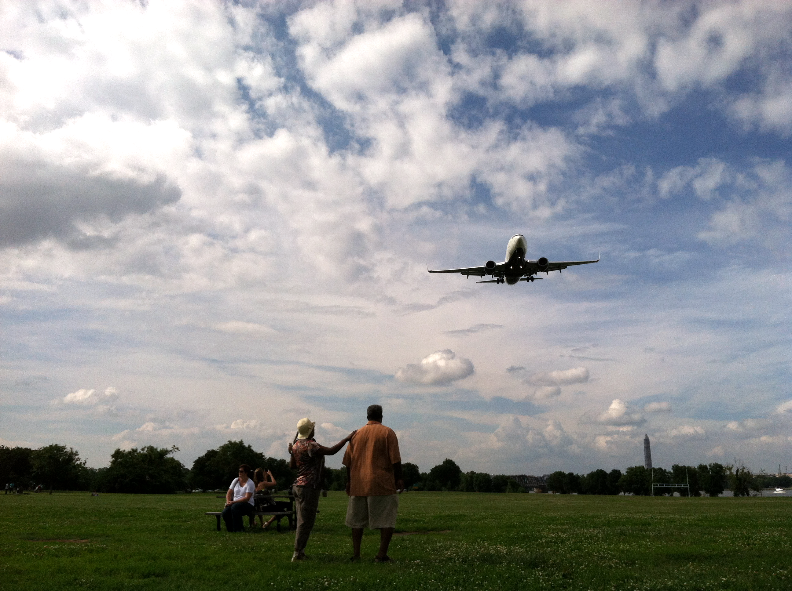 A couple watches airplanes land at Reagan National Airport from Gravelly Point Park in Arlington, Virginia.